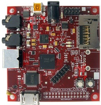 BeagleBoard by Texas Instruments